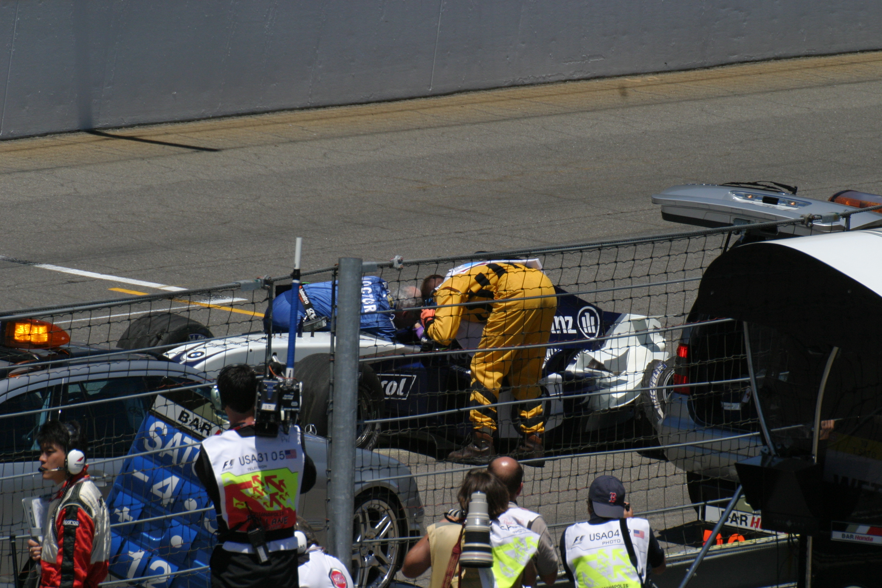 Ralf Schumacher is attended to by Professor Sid Watkins after impacting the wall out the outside of turn 12 on lap 9 of the 2004 United States Grand Prix.